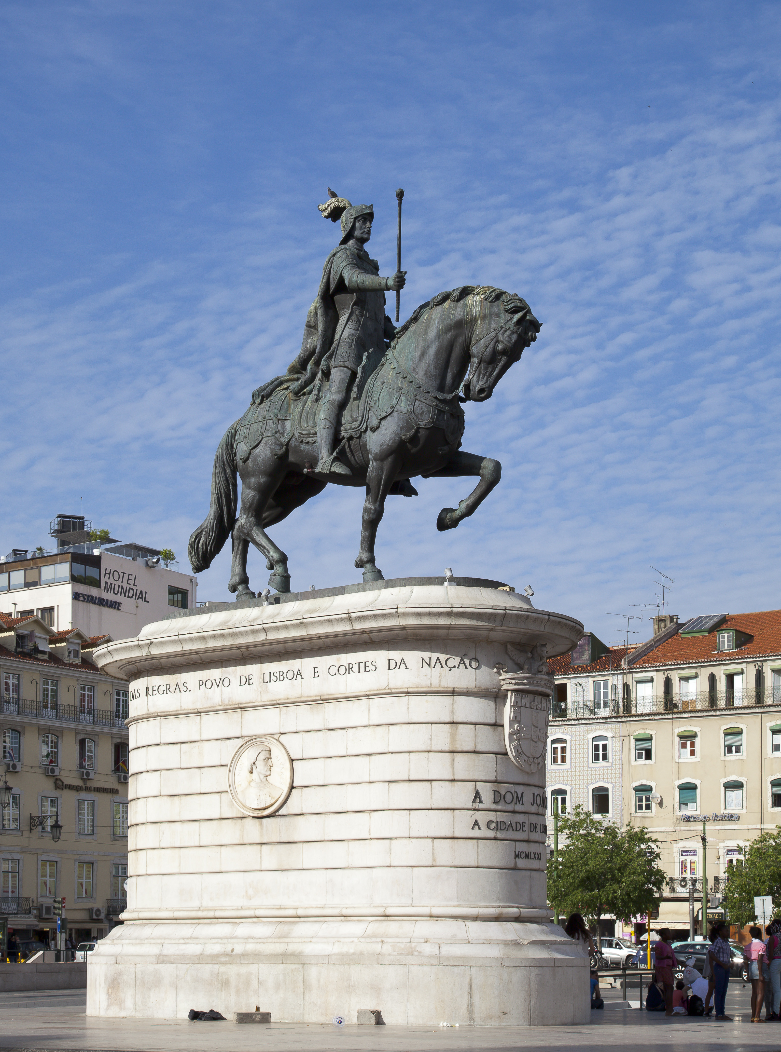 Statue of D. Joao I, Figueira Square, Lisbon, Portugal